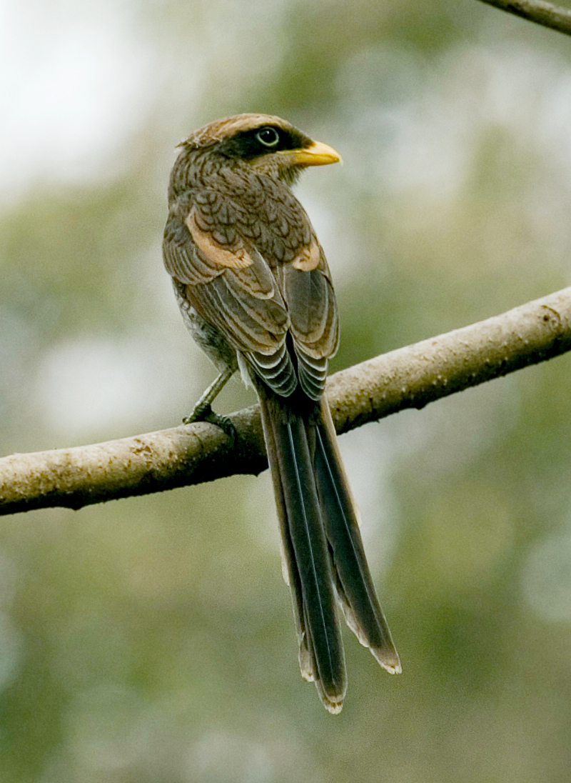 Park Hann, near Dakar, Senegal. Added to Wikpedia as they had no image of this bird. Thanks to Martin for the ID.